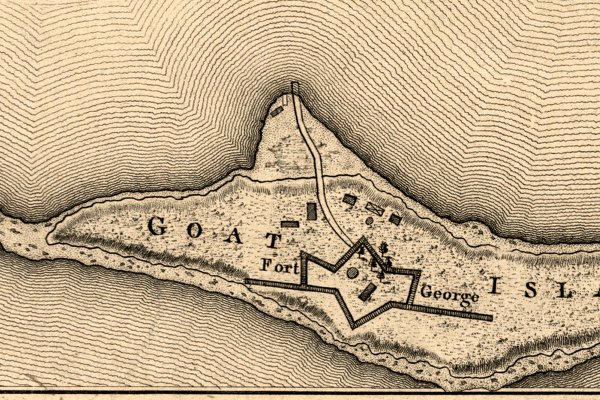 Fort George, Goat Island, Newport, RI in 1777. Later renamed Fort Wolcott.